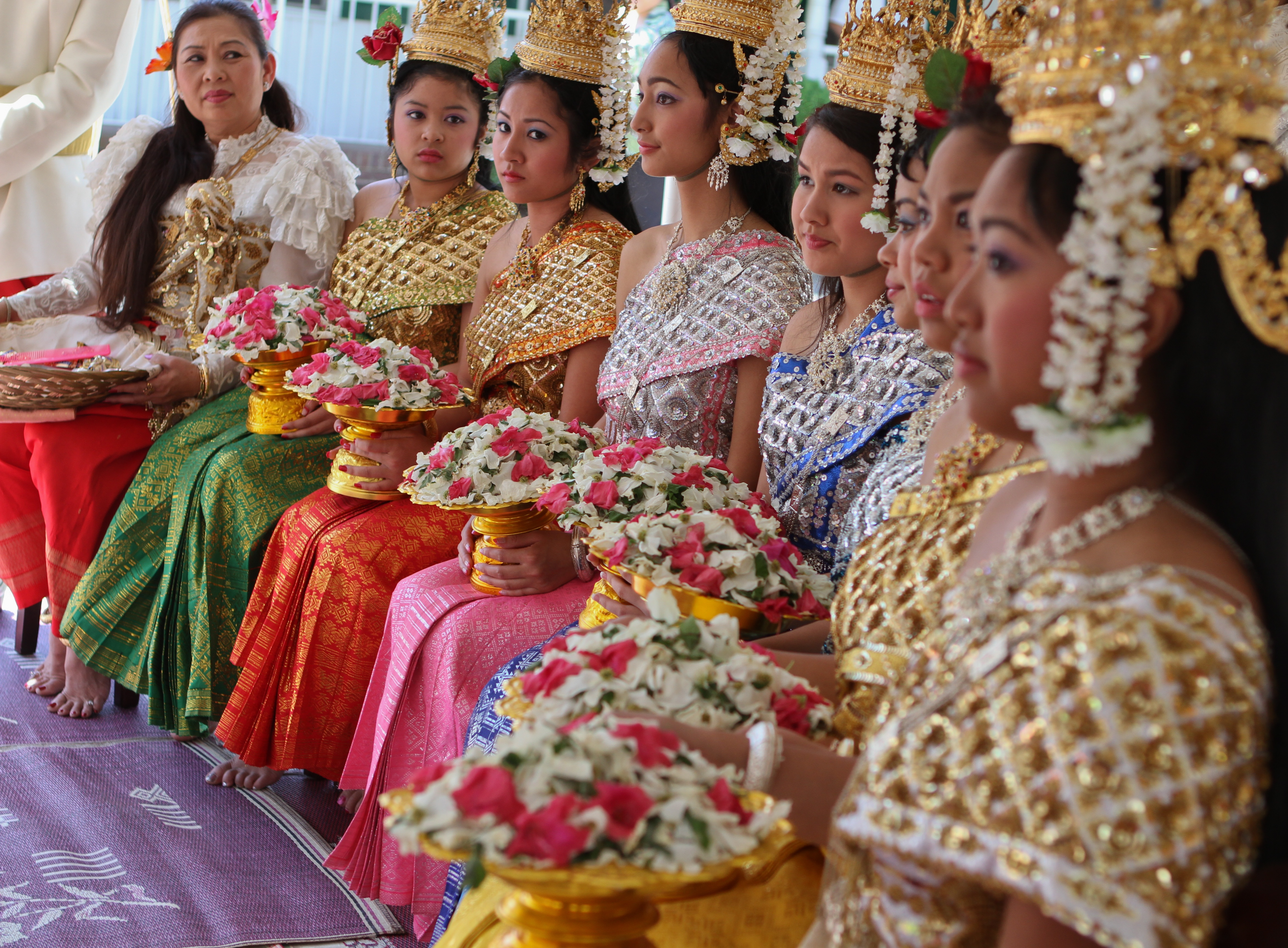 Young women are seated on stage during a celebration to mark the Khmer New Year in Lithonia, GA.